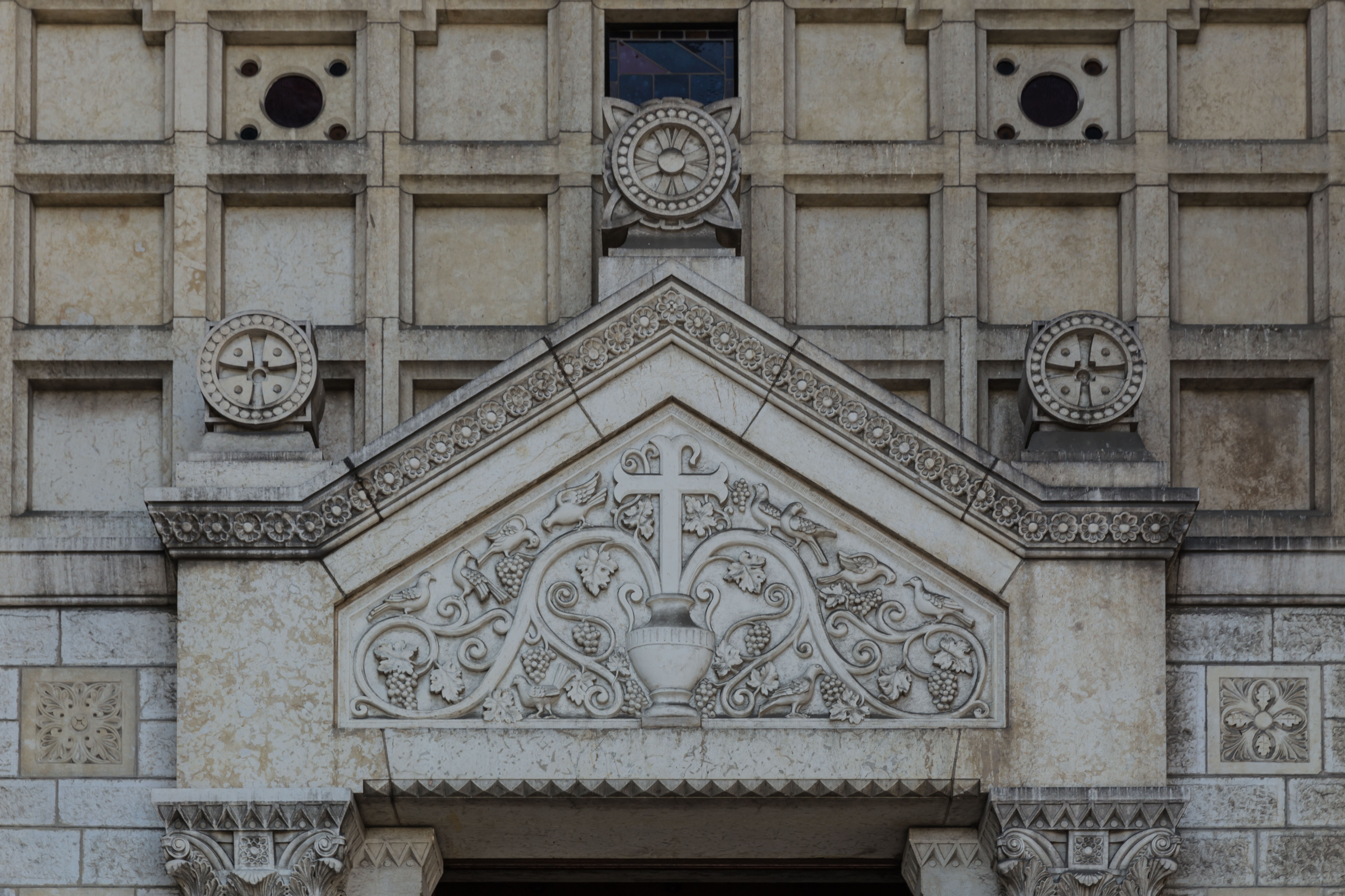 Detail above the entrance on the west facade of the basilique de la Visitation in Annecy, France